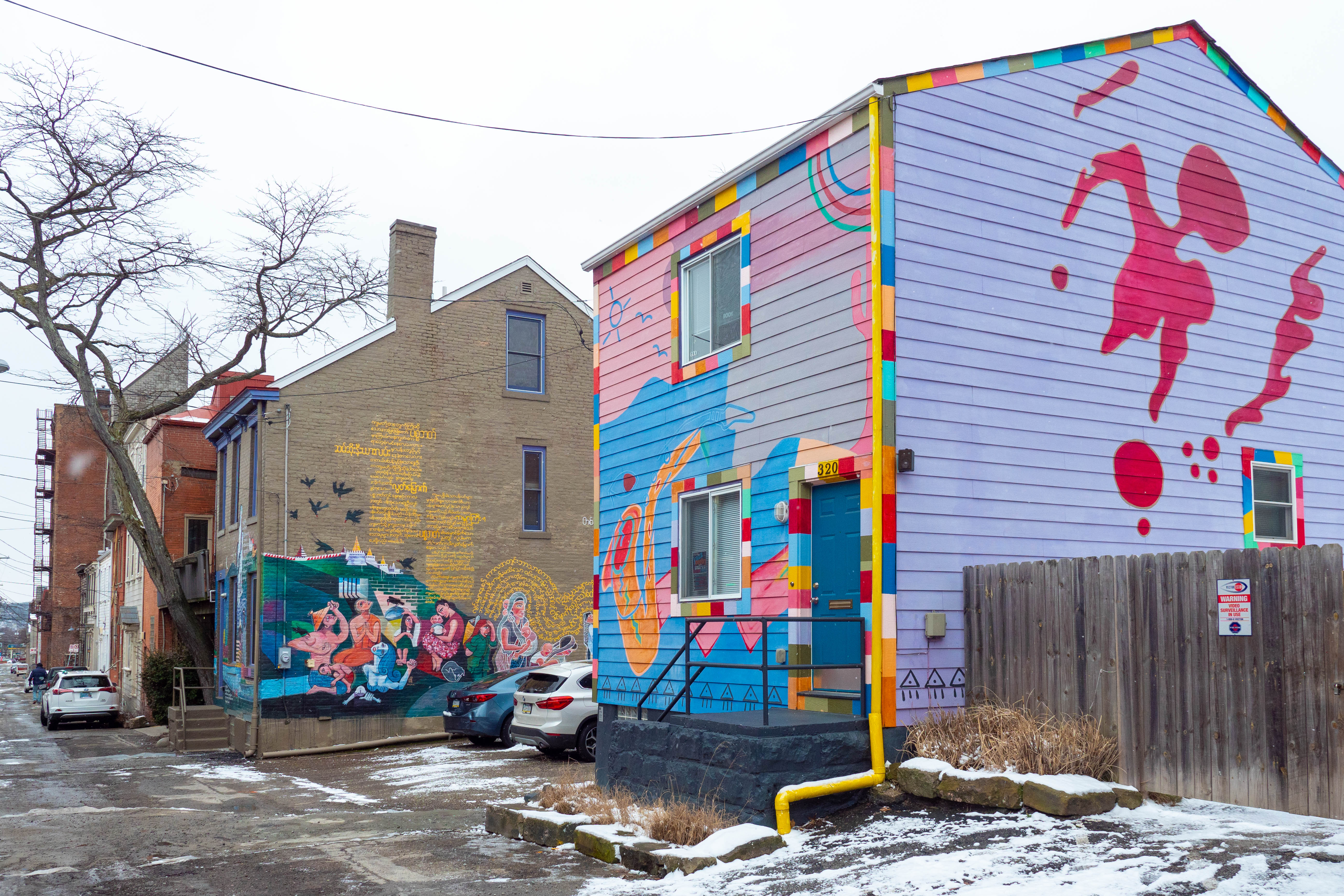 City of Asylum is a non-profit that houses writers in exile. The authors painted the houses on Sampsonia Way to celebrate their voice.